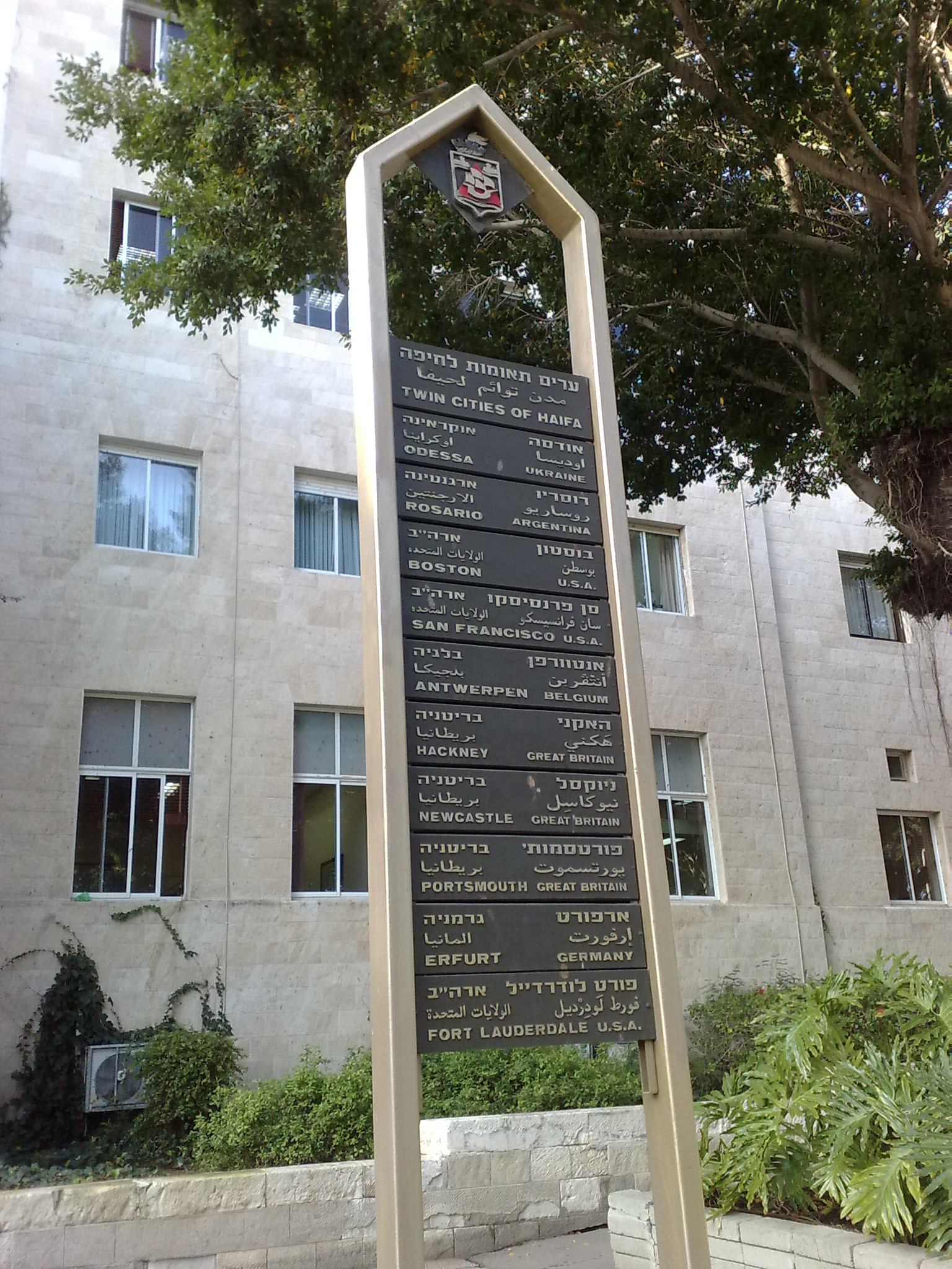 Stela with names of twin cities of Haifa. The rest of the names are located on the other side of the stela. This stela is located in front of the Haifa Municipality building, Hasan Shuqri str., Haifa, Israel.